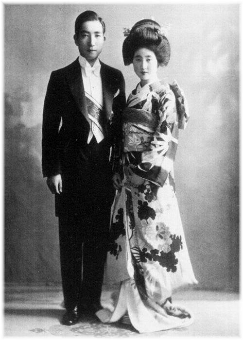 Prince Takeda Tsuneyoshi with his wife Sanjyō Mitsuko